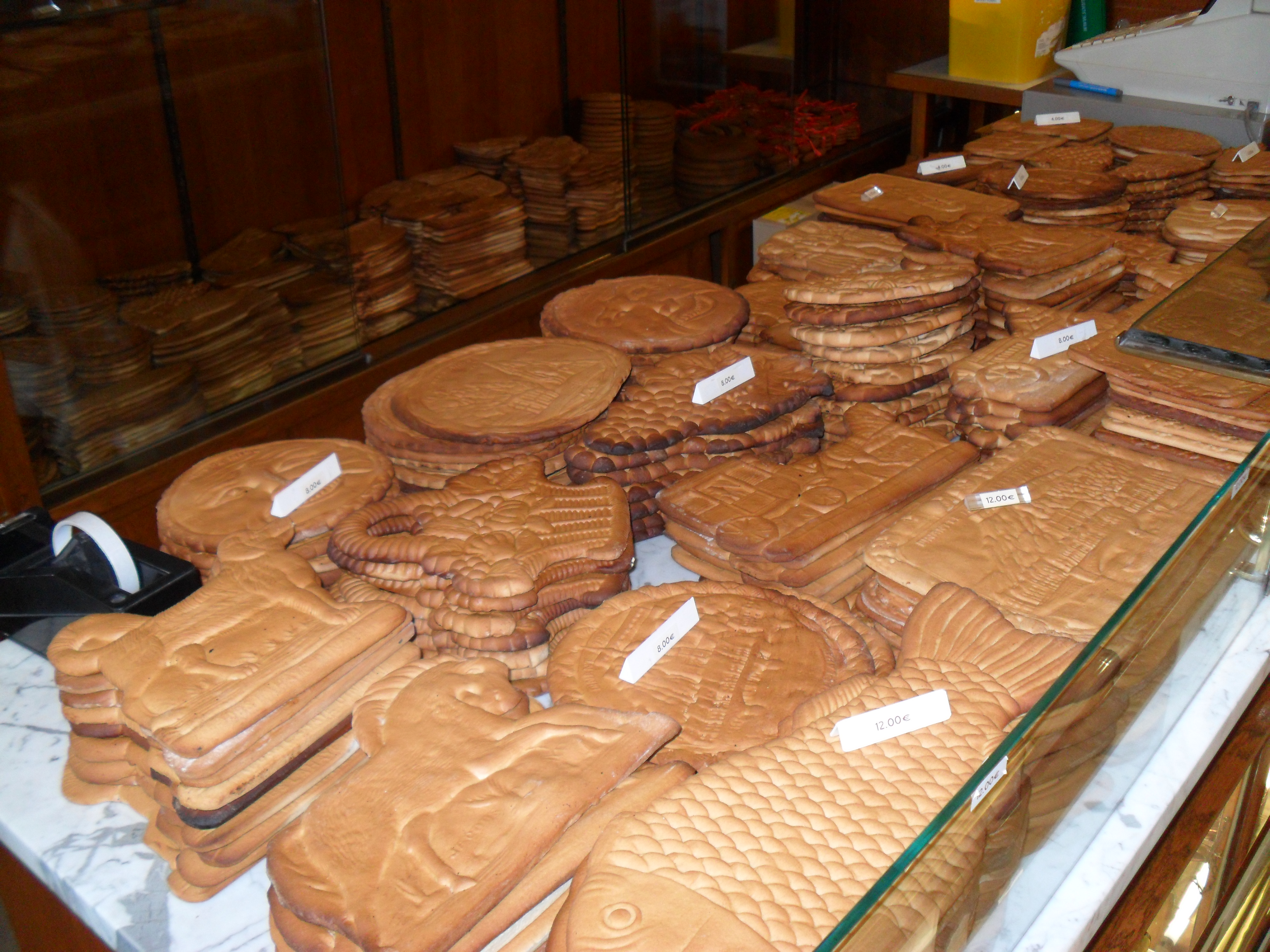 A display of couque de Dinant biscuits. Taken at Couques Jacobs.